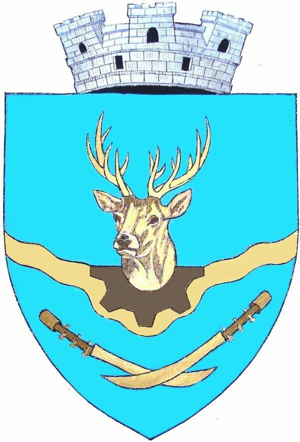 Coat of ARms of Cugir City, Romania